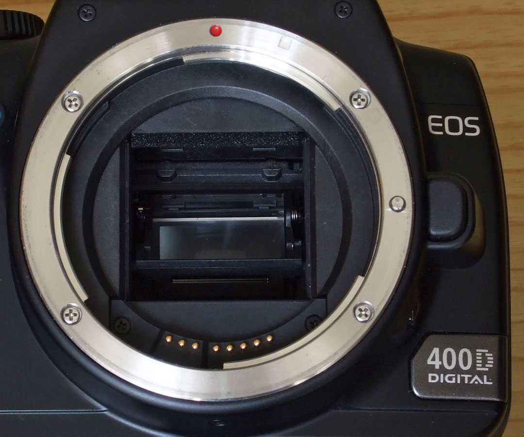 EF bayonet 1.6x sensor of an EOS 400D